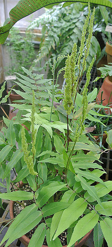 One of the 'flowering ferns', widespread in the Neotropics. UC Berkeley Botanical Gardens.